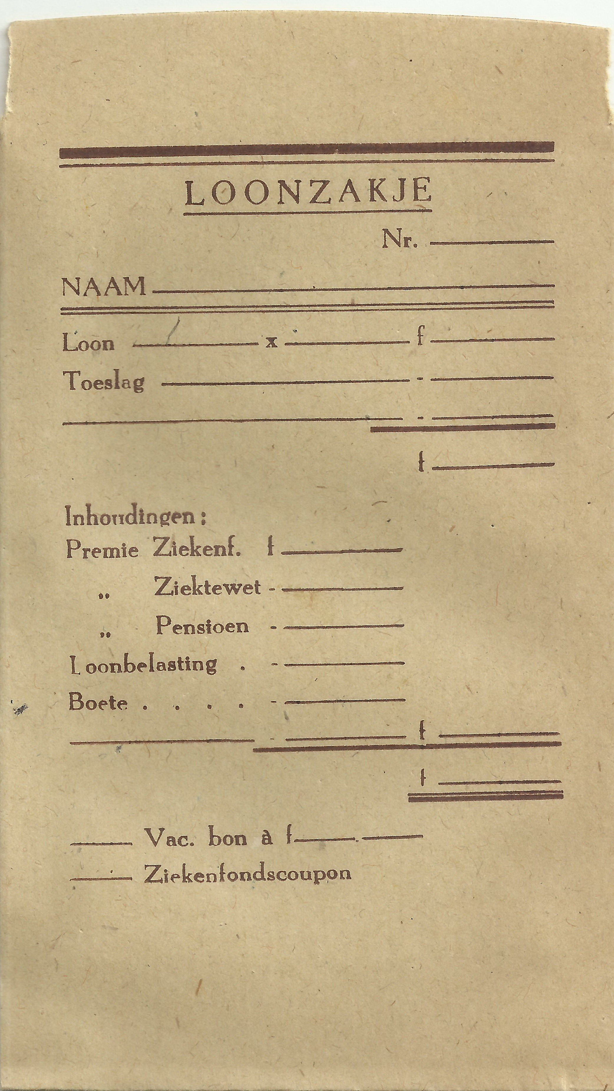 Pay pocket for cash salary payment